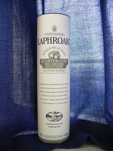 Laphroaig Single Malt Whiskey in its case